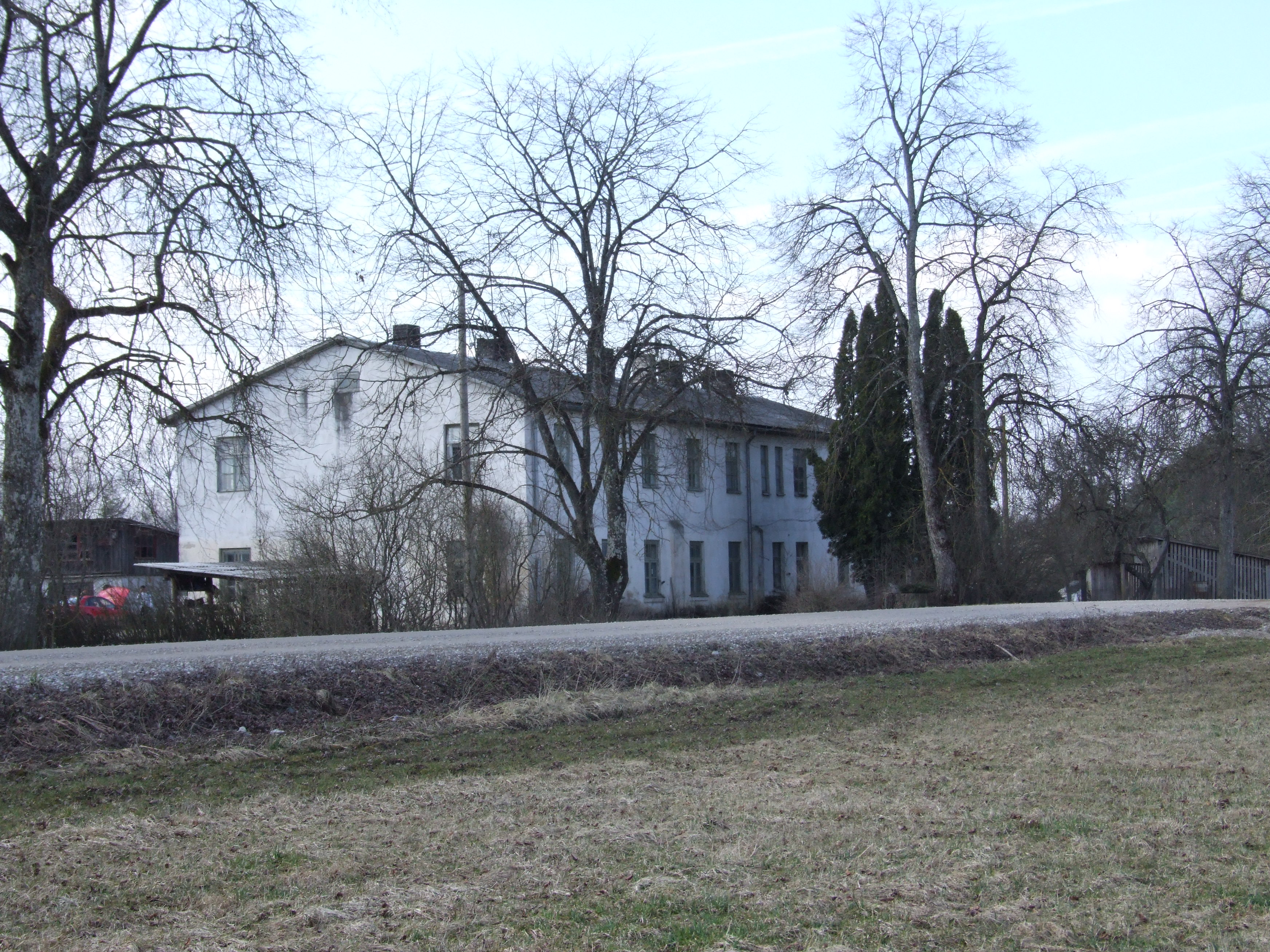 Building of former Ģibuļi elementary school